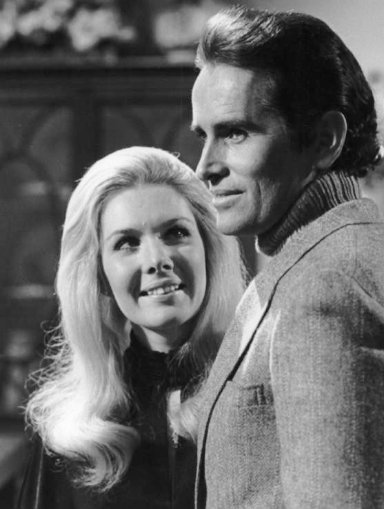 Photo of Jacquie Courtney (Alice Matthews) and James Douglas (Eliot Carrington) from the daytime drama Another World.